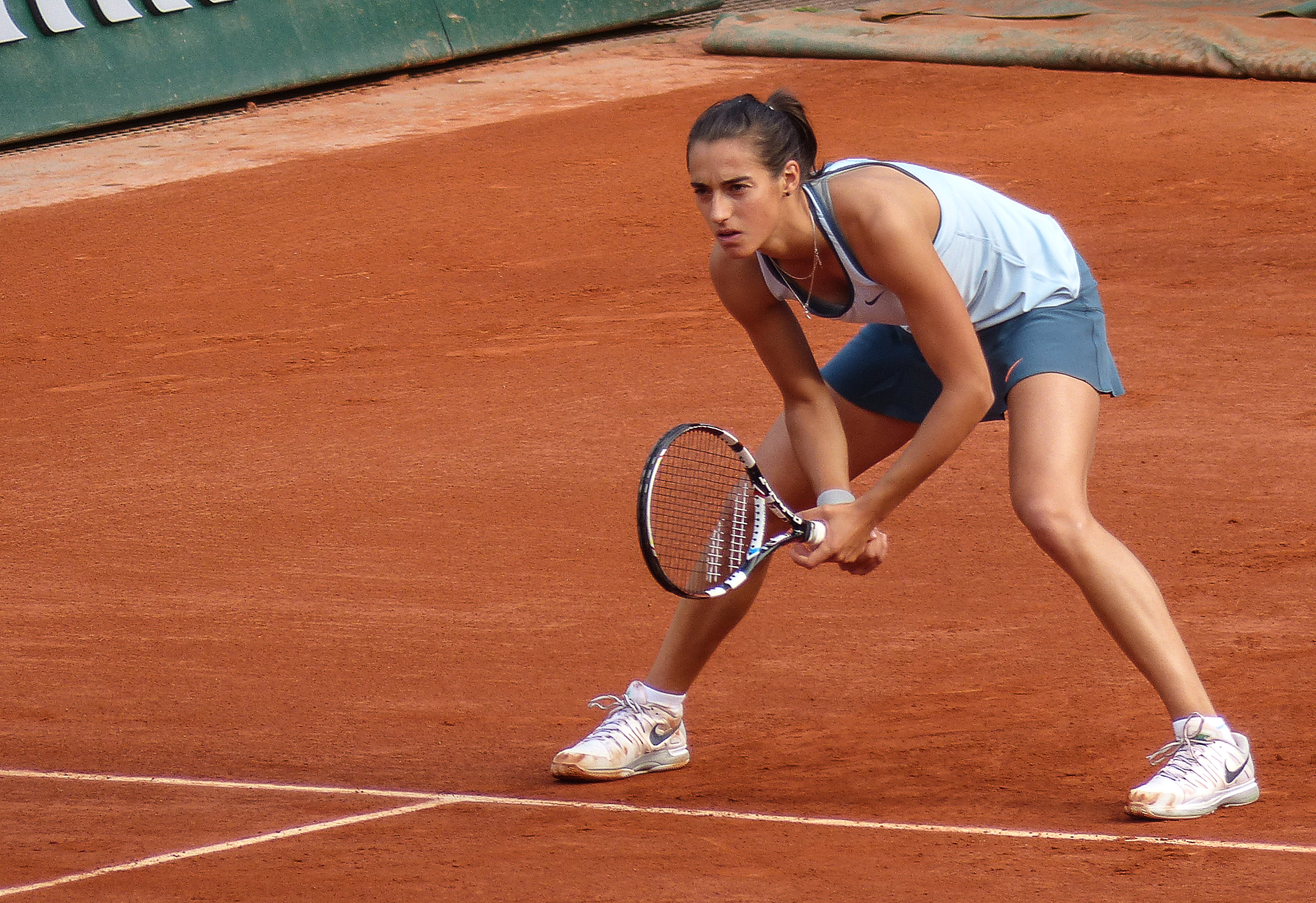 2ème tour Roland Garros 2013 : Serena Williams (USA) def. Caroline Garcia (FRA)